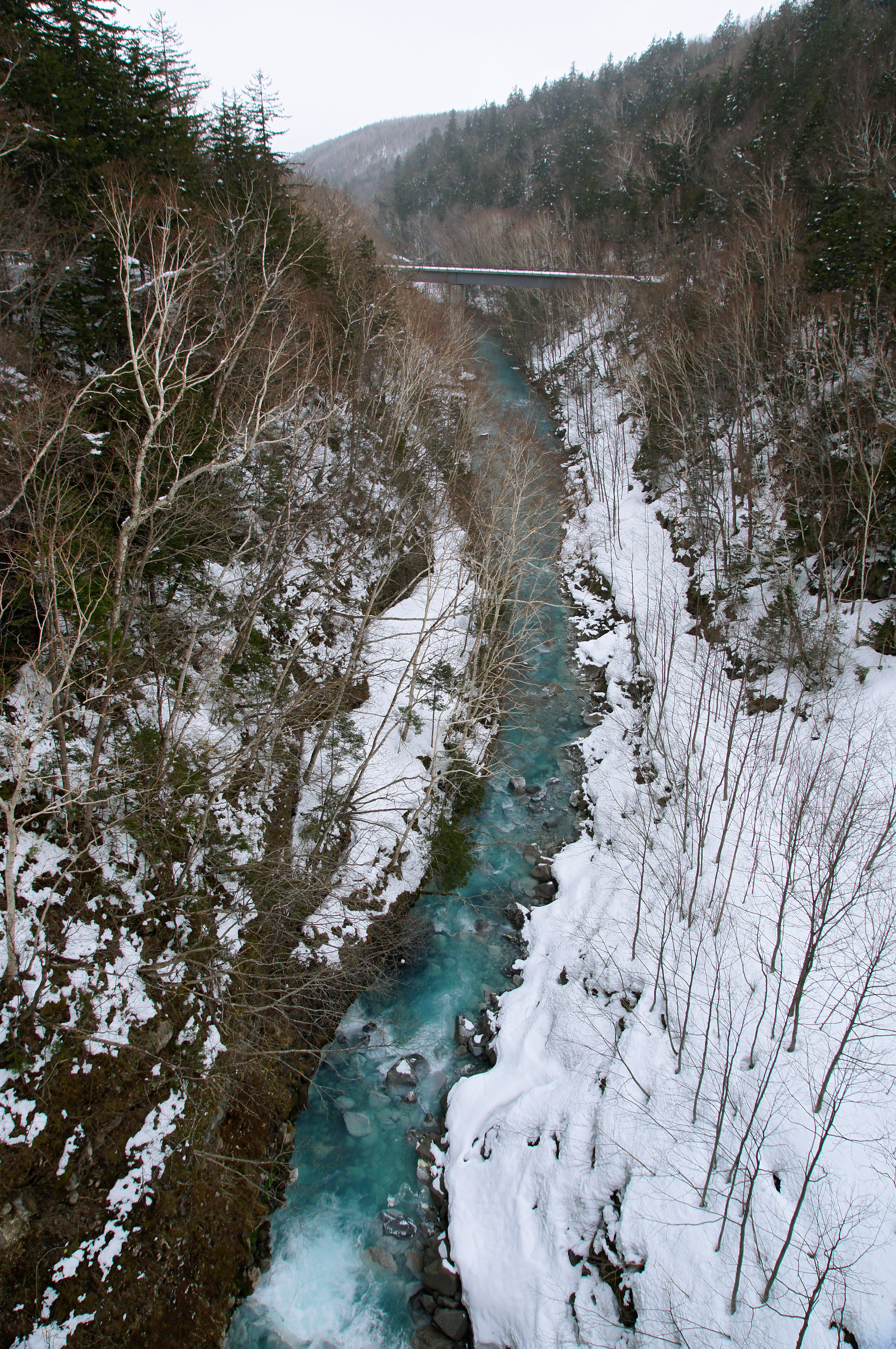 Biei River at Shirogane Onsen, Biei, Hokkaido prefecture, Japan.